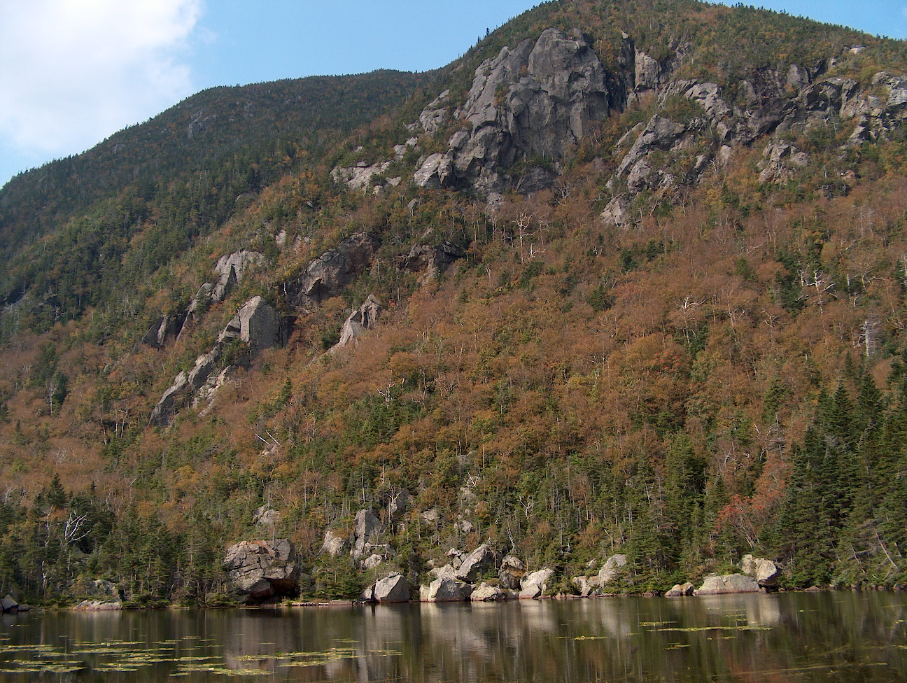 Wildcat Mountain (summit in background) rises over Carter Notch in the White Mountains of New Hampshire.